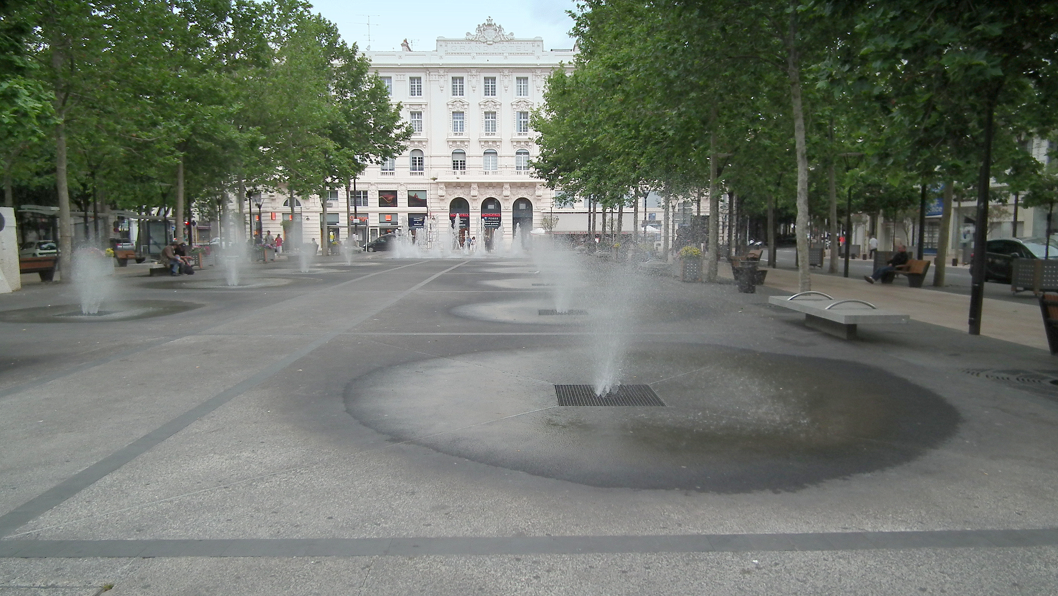 Place De Gaulle, Antibes, France